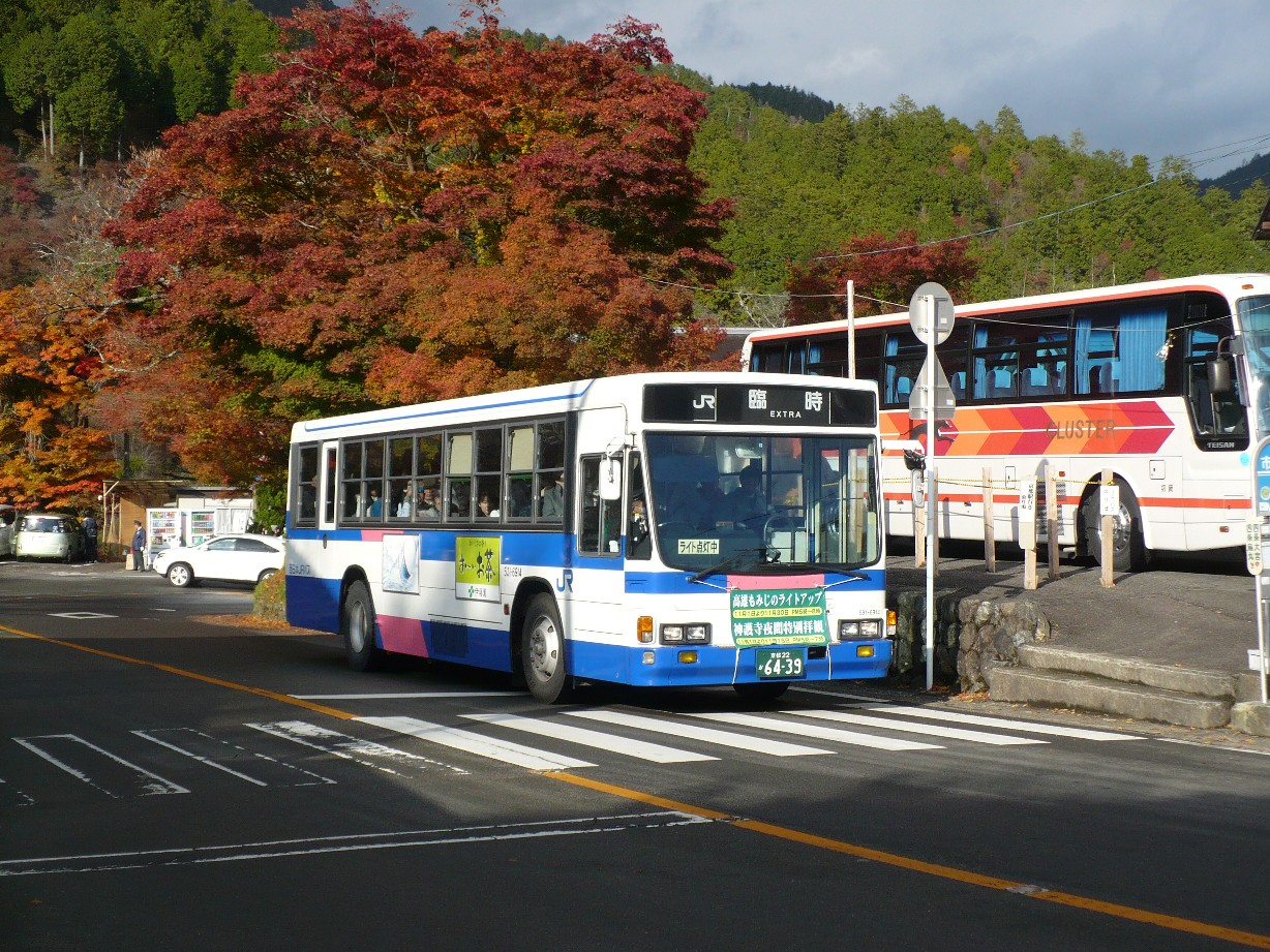 JR west bus Takao-Keihoku line at Yamashiro Takao bus stop. The bus is for an extra service during red leaves sightseeing period, bound for Kyoto railway station.